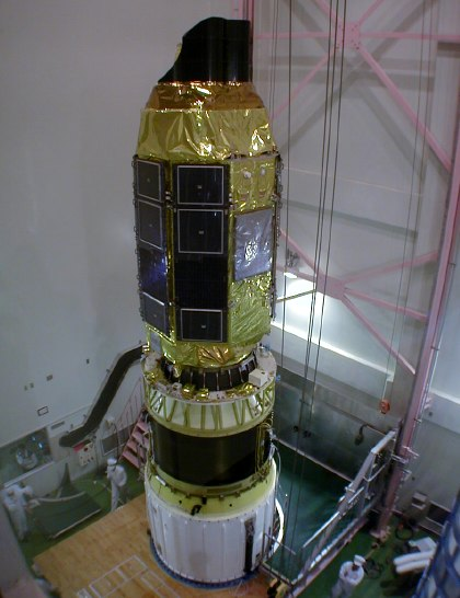 ASTRO-E attached to the third stage of the M-V rocket. We can't use flash photography, because the sudden flash of light could cause the solar panels to produce enough voltage to momentarily power some of the spacecraft's systems.